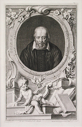 Original portrait engraving of George Buchanan (1506-1582)